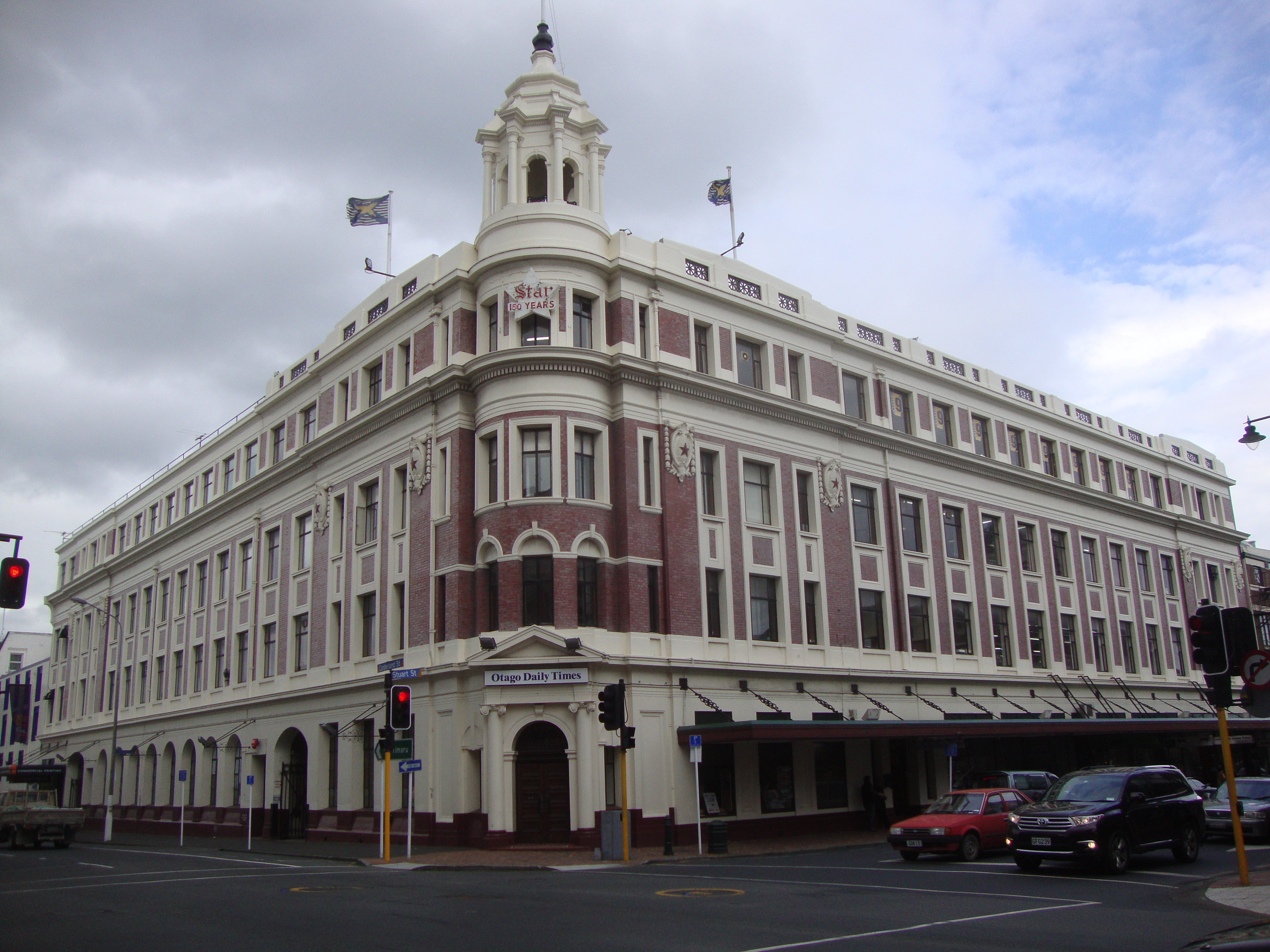 Allied Press Building in November 2012.